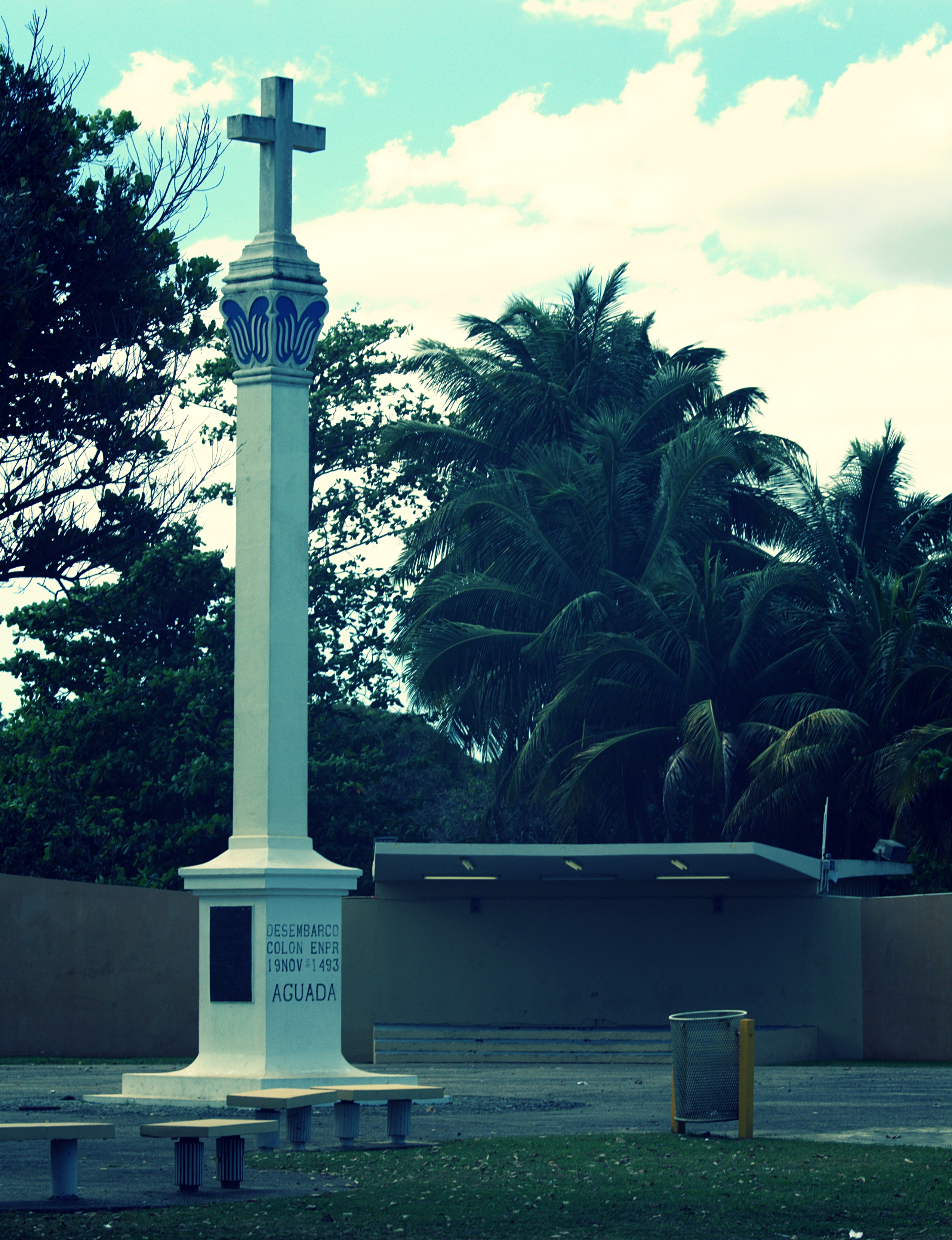 Cross marking spot where it is said Colombus disembarked in Aguada, Puerto Rico